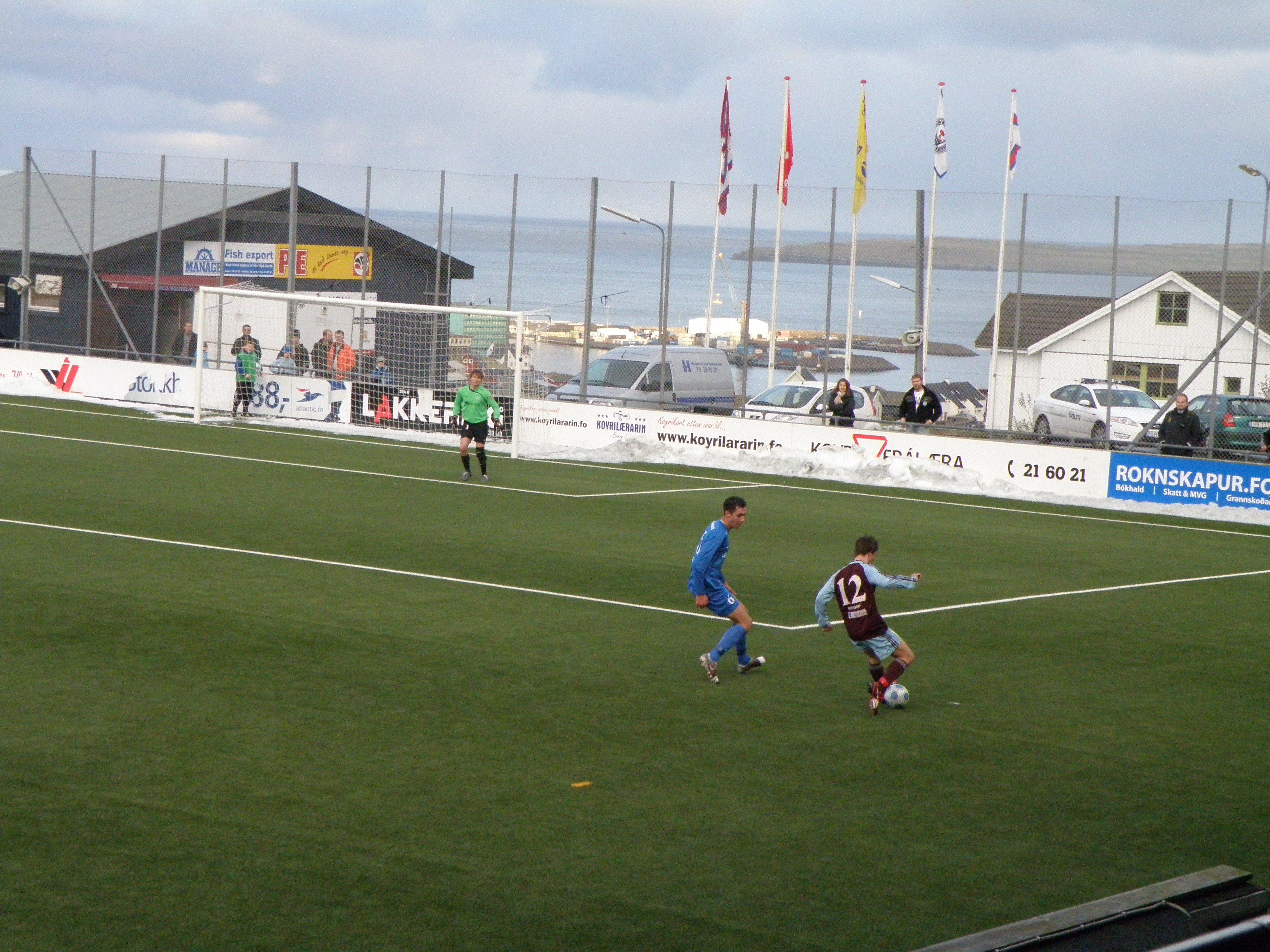 Football match in the Faroese Premier League (Vodafonedeildin) on 23 October 2010, which was day when the final matches in Vodafonedeildin were played. Nothing was settled before this day, other than the fact that AB Argir was one of two teams which would be relegated. This photo is from the match between AB Argir and FC Suðuroy. If FC Suðuroy won or at least got one point, they would have survived in the best Faroese division, because the other team which could be relegated before this match was B71 Sandoy, and they lost 1-9 against NSÍ Runavík. B71 Sandoy had one point more than FC Suðuroy before this match and the result was the same after all the matches were played. FC Suðuroy lost 1-0 against AB Argir. On this photo are: The man in Teitur Tausen from FC Suðuroy. The man with number 12 on his back is Jákup Pætursson Dam. The goal keeper is FC Suðuroy's goal keeper from Slovenia, Stanislav Kuzma. The football stadium is Inni í Vika Stadium in Argir. The harbour of Tórshavn and a part of Nólsoy island are visible in the back ground. Føroyskt: Myndin er tikin 23. oktober 2010 til botndystin í Vodafonedeildini millum AB og FC Suðuroy. AB var longu flutt niður í 1. deild, men FC Suðuroy hevði enn ein møguleika, tí teir vóru bert eitt stig aftanfyri B71, og henda dagin tapti B71 9-1 móti NSÍ. Men FC Suðuroy fekk onki mál og tapti 1-0 móti AB. Á myndini síggjast málmaðurin hjá FC Suðuroy, Stanislav Kuzma, Teitur Tausen hjá FC Suðuroy og Jákup Pætursson Dam hjá AB. Føroyameistari gjørdist HB, sum spældi í Gundadali móti B36 samstundis sum hesin dysturin varð spældur, og vann 2-1.